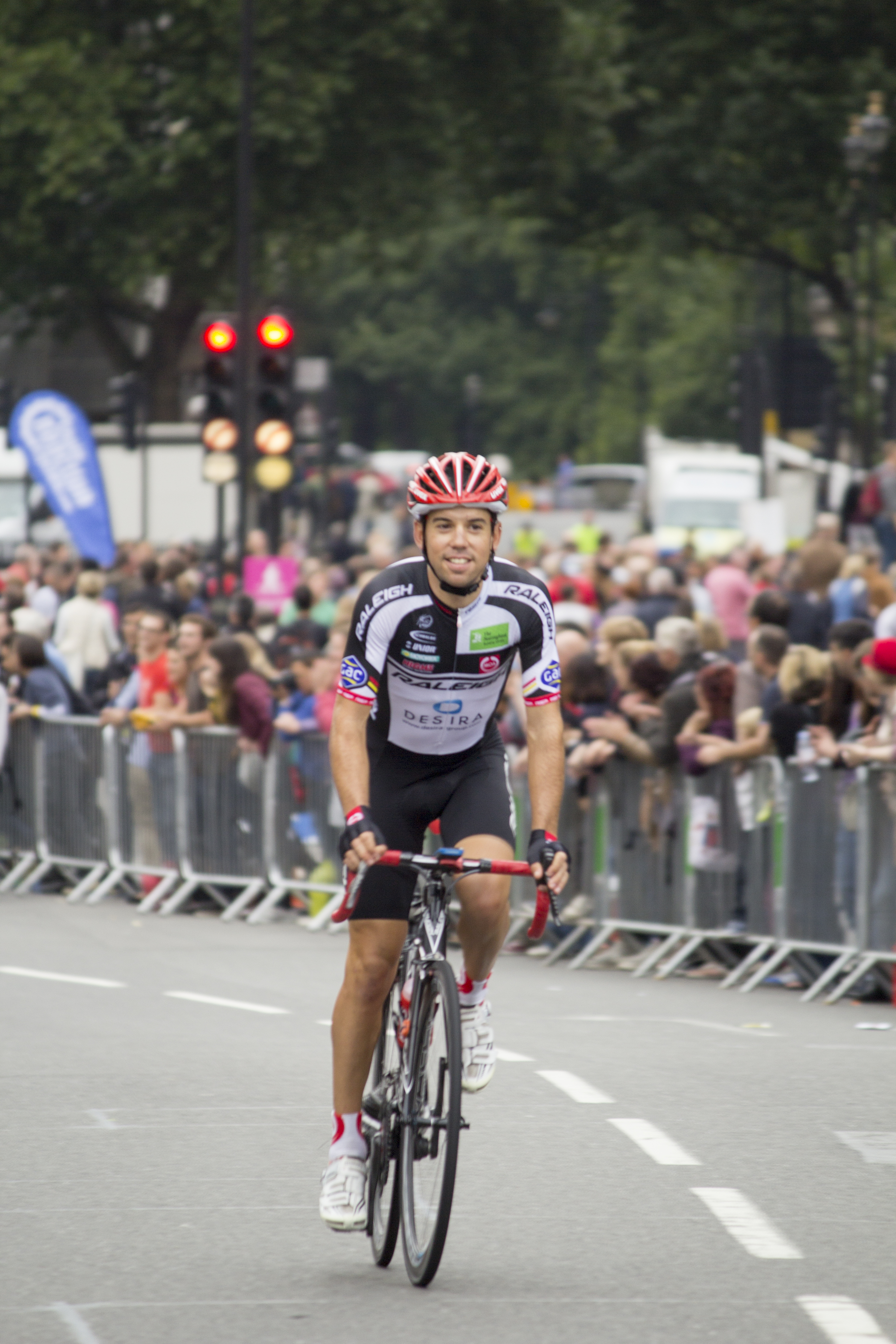 Riders post race after Tour of Britain 2013 stage 8 : Lachlan Norris